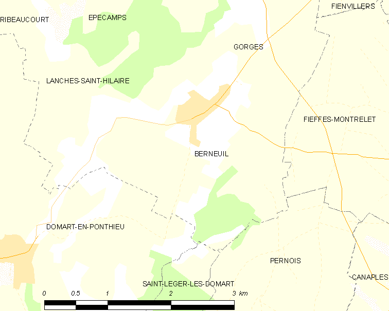 Map of French municipality Berneuil